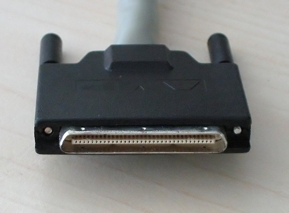 VHDCI connector and cable for external SCSI devices